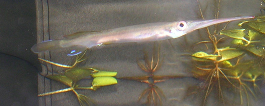 Hemirhamphodon pogonognathus female, about 4 cm long Taxonomy Chordata : Actinopterygii : Beloniformes : Hemiramphidae : Freshwater halfbeak Category:Beloniformes images